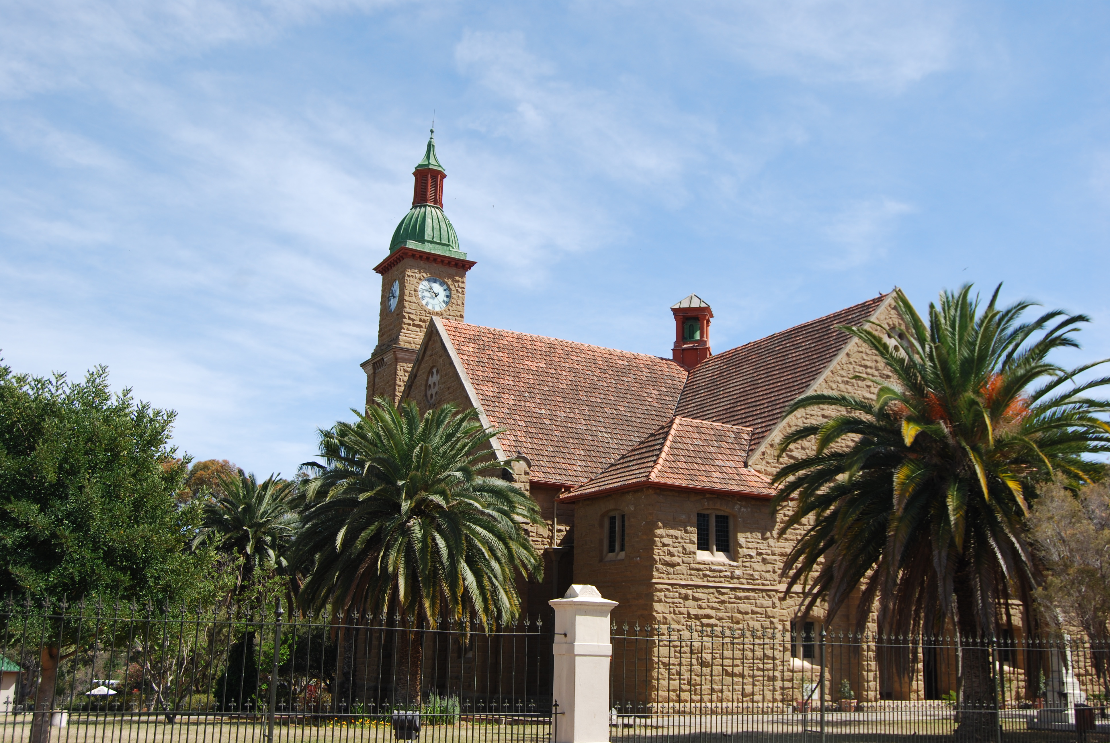 This media shows a South African Protected Site with SAHRA file reference 9/2/016/0001.